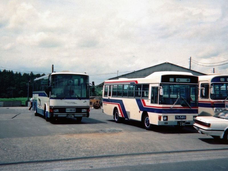 Ibaraki Kotsu Ota Branch